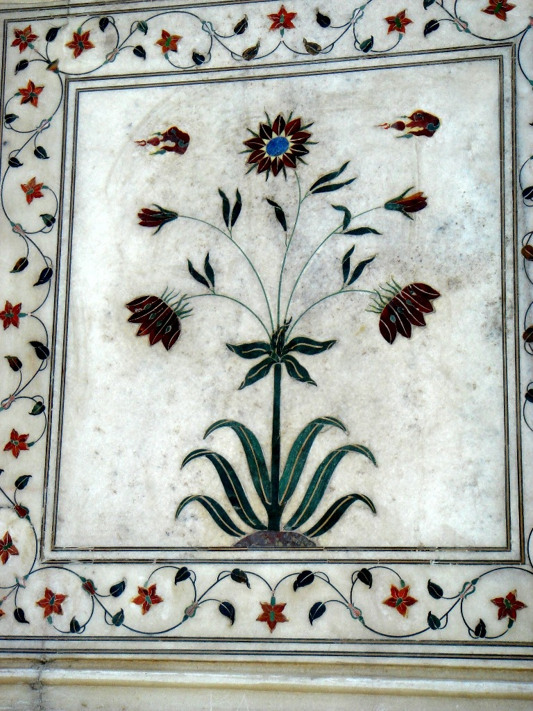 Picture taken by Kaiser Tufail during visit to Delhi, 29-4-08